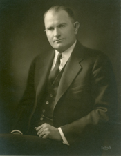 Wilburn Cartwright portrait